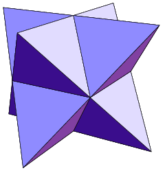 Simple picture of a Stella octangula / Star Tetrahedron